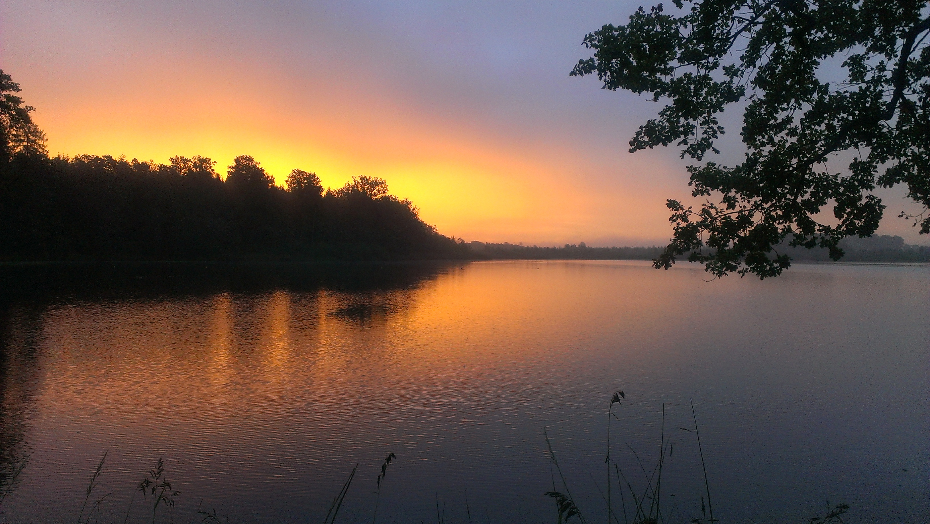 Germany - Baden-Württemberg - district Ravensburg - Fronreute: sunrise in the protected area "Naturschutzgebiet Dornacher Ried mit Häckler Ried, Häckler Weiher und Buchsee"